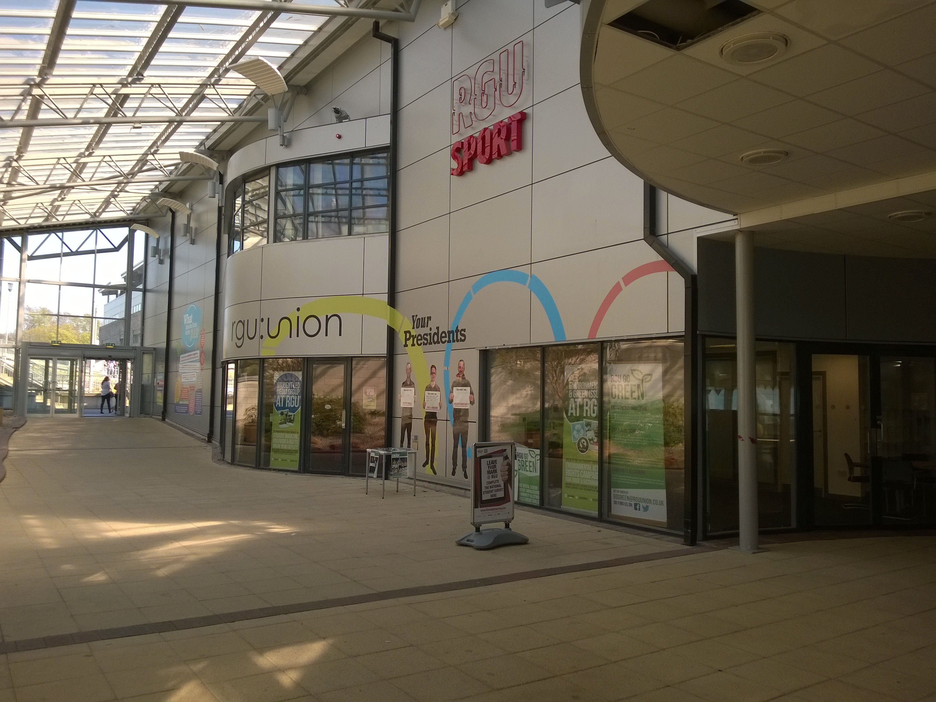 The RGU Student Union offices are located here in the RGU Sport building. The RGU Union is the Robert Gordon University's Student Association.